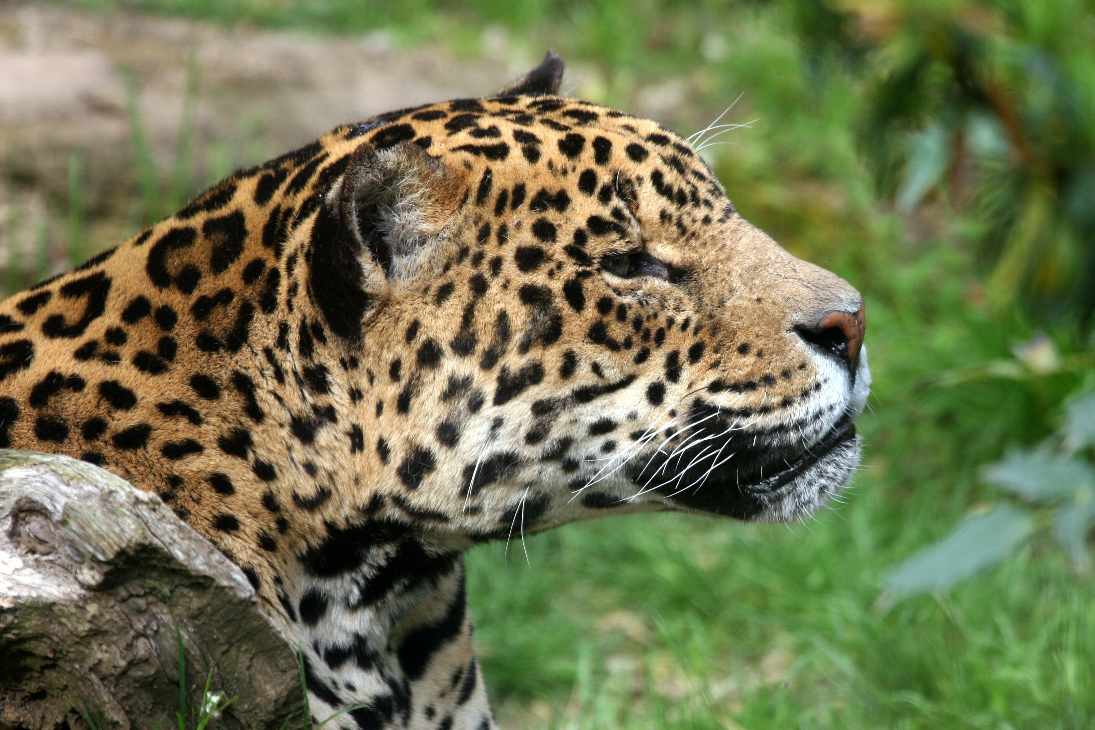 Jaguar in Zoo d'Amnéville.